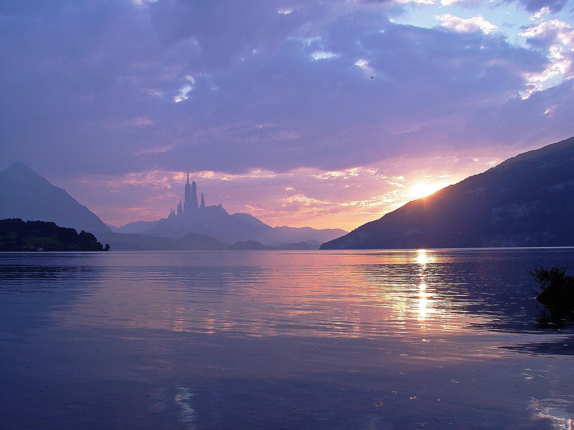 Lake Thun in Grinderwald (Switzerland). Star Wars planet Alderaan.